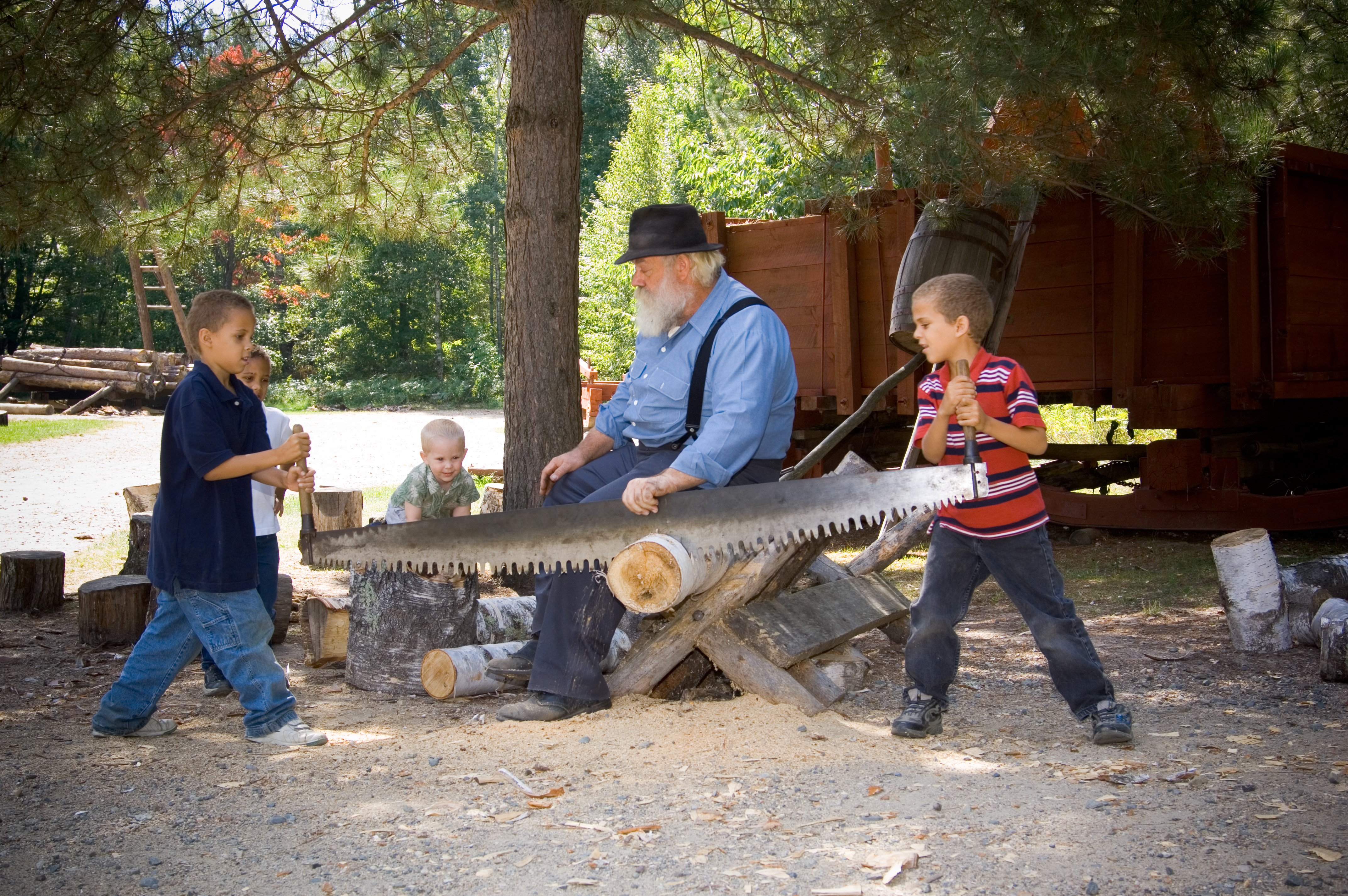 Sawing logs at Forest History Center.